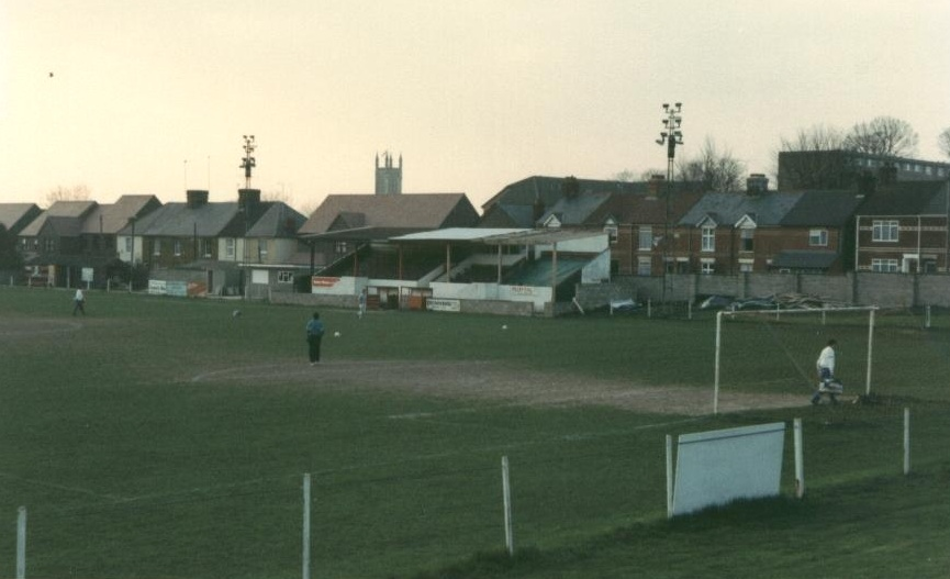 View of the main stand at the Walled Meadow (the former home of Andover F.C.), taken from the east end of the ground